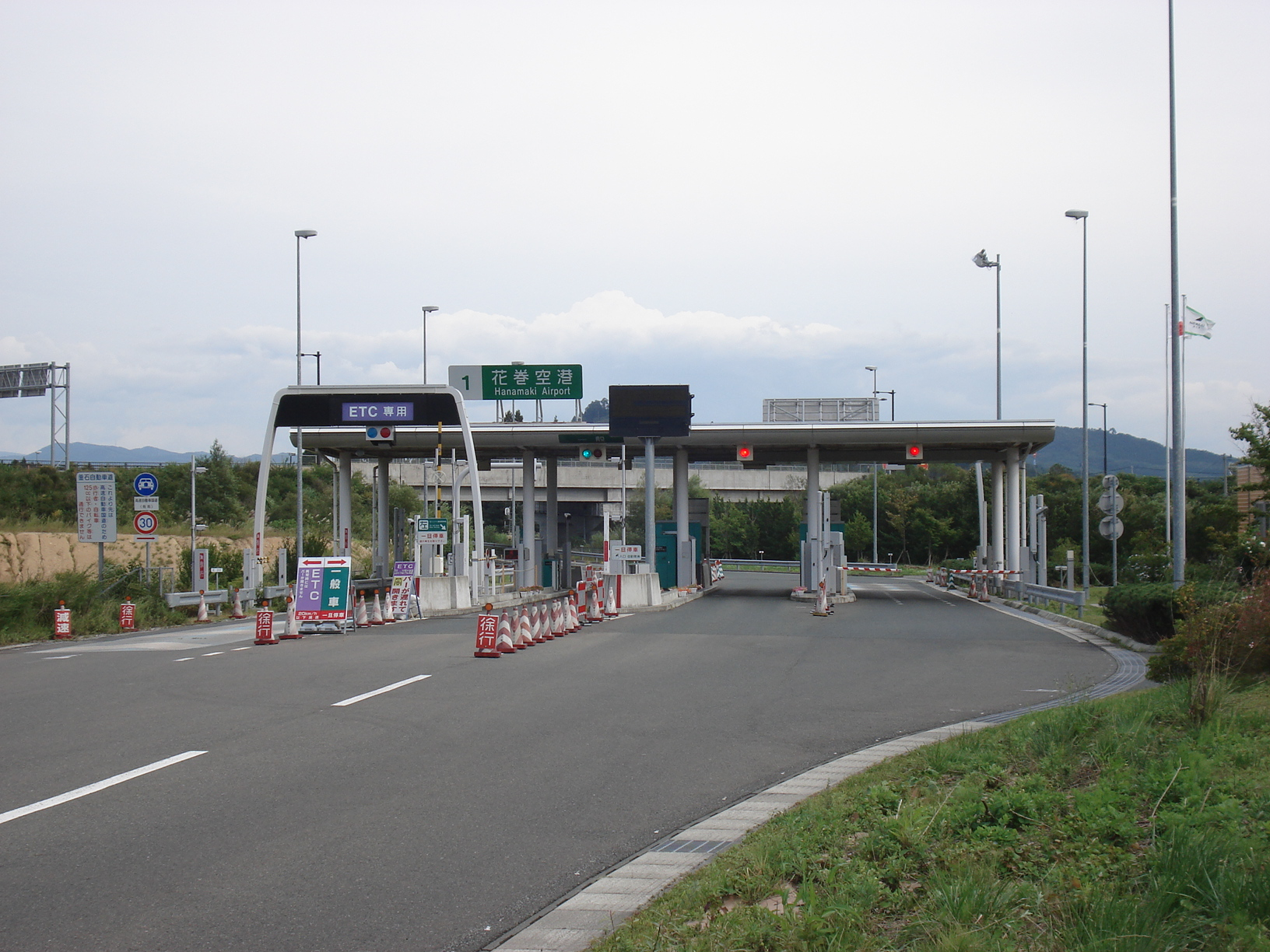 This Interchange, Hanamaki-Airport Interchange, is on Kamaishi Expressway, in Hanamaki city, Iwate Prefecture, Japan.